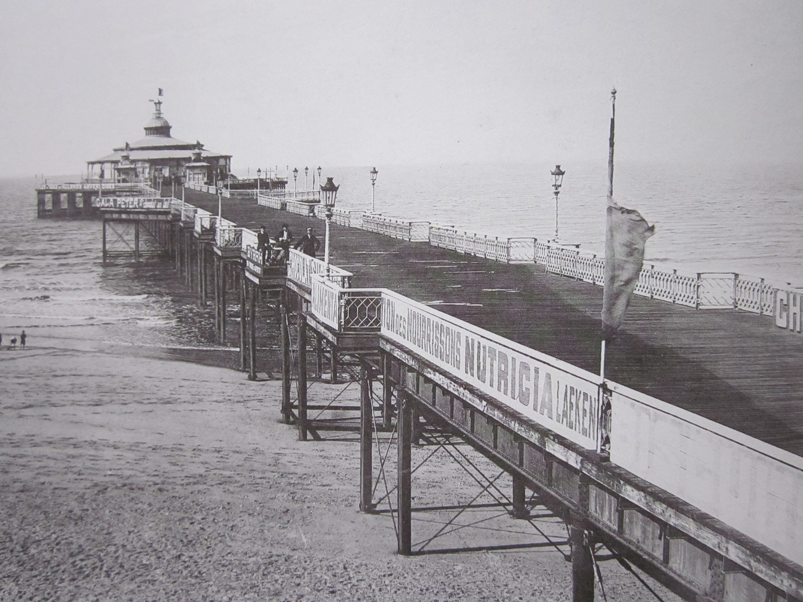 First pleasure pier of Blankenberge, built in 1894